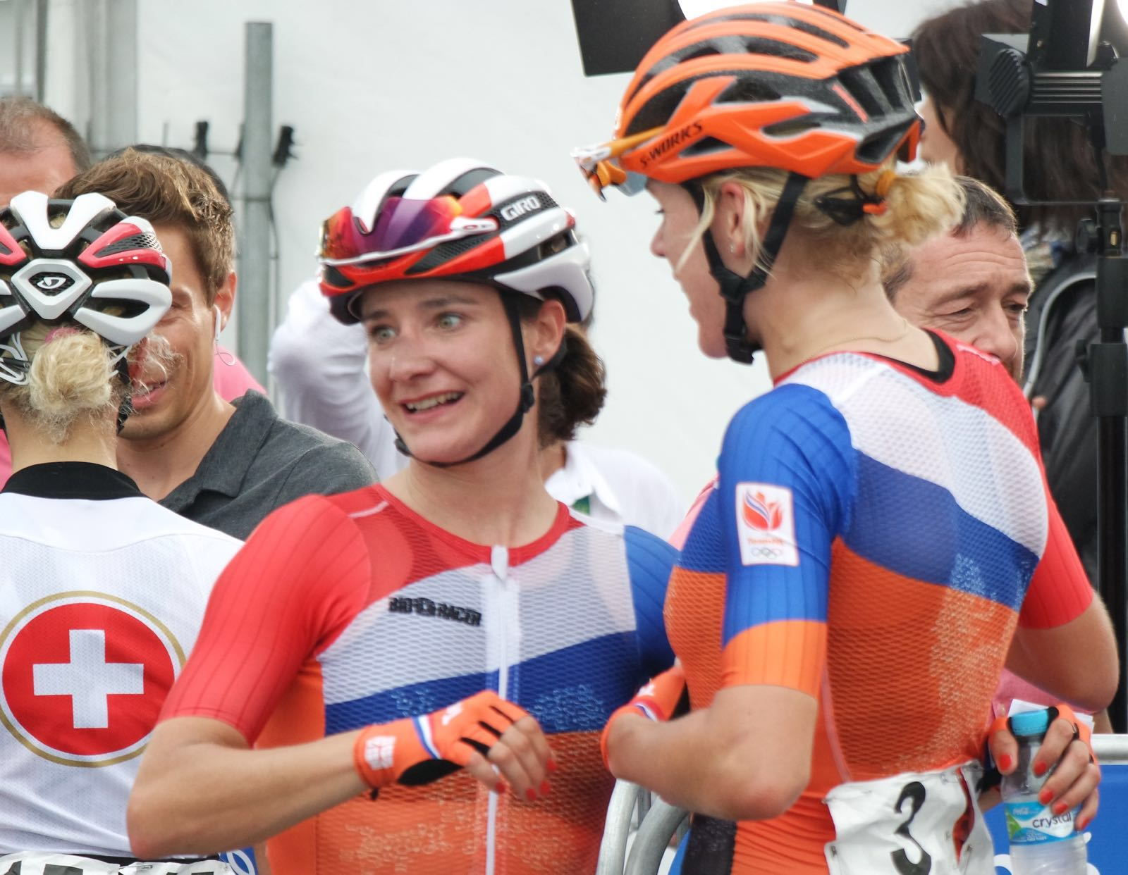 Rio 2016 - women's road race